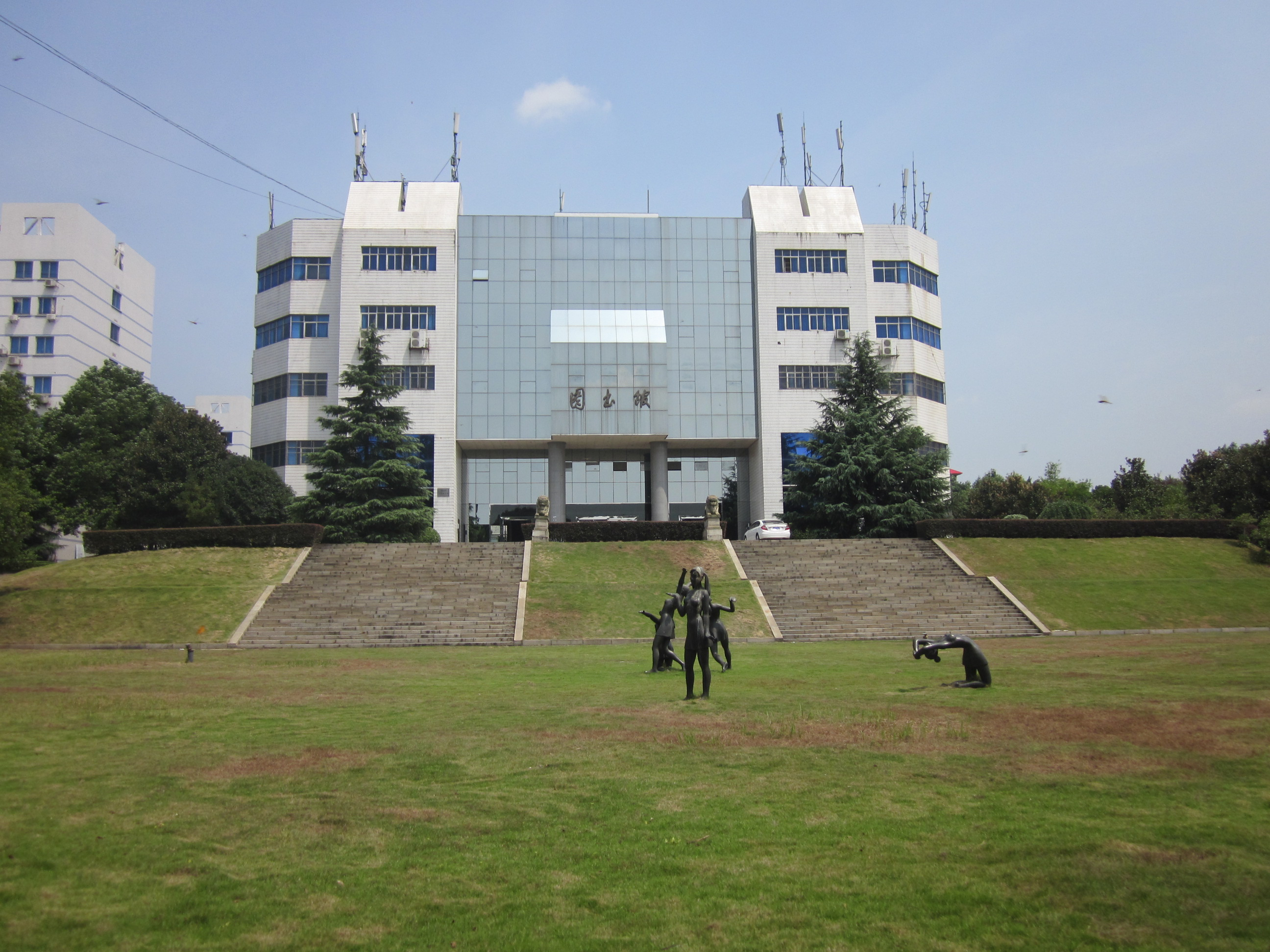 Changsha University (CCSU